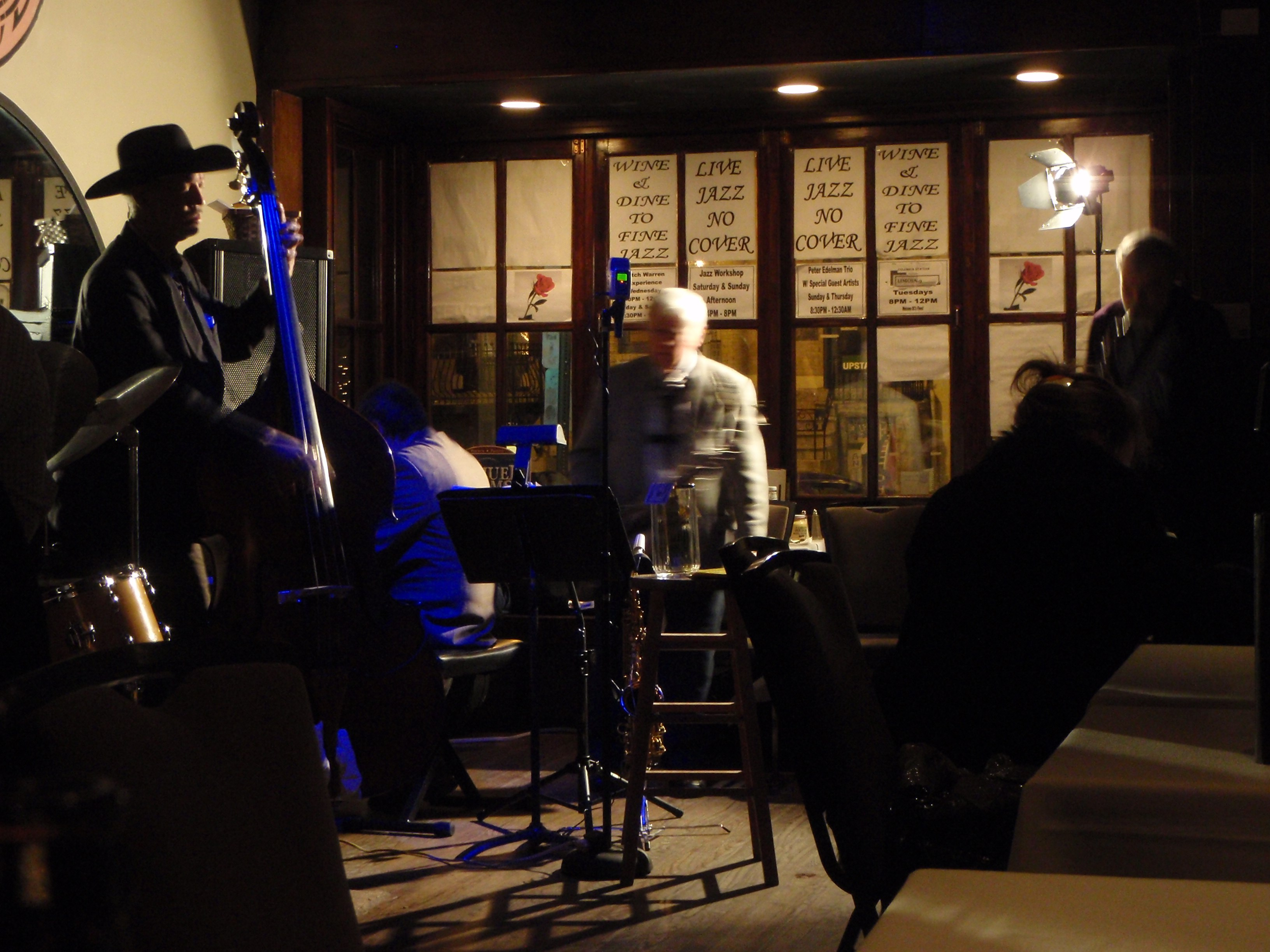 Butch Warren in 2009